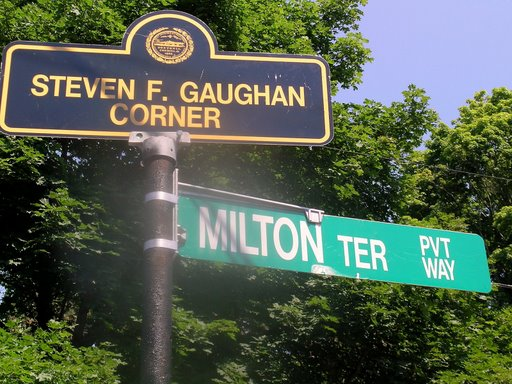 Gaughancorner